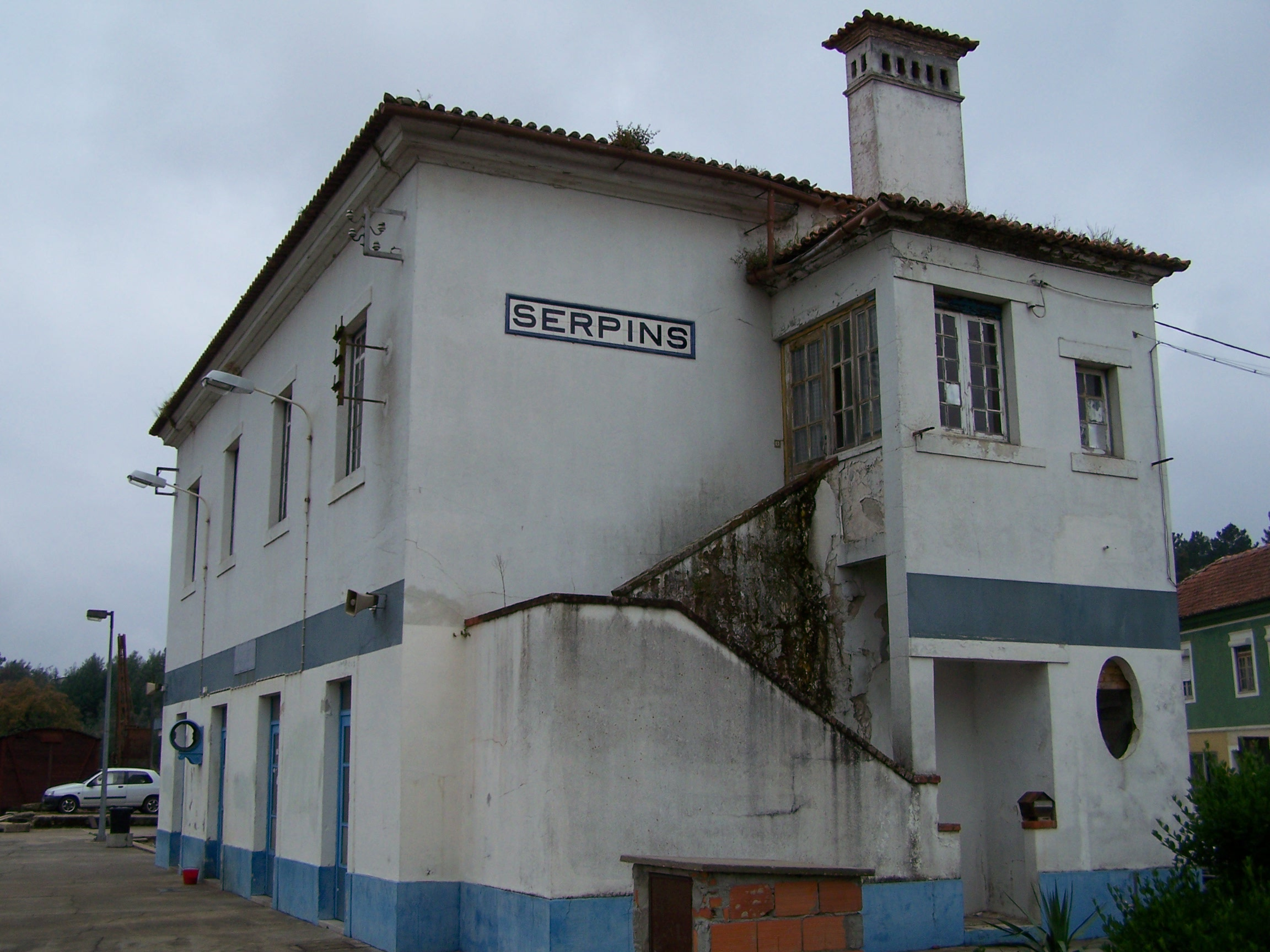 station Serpins of the Ramal de Lousã, a railway line near Coimbra, Portugal